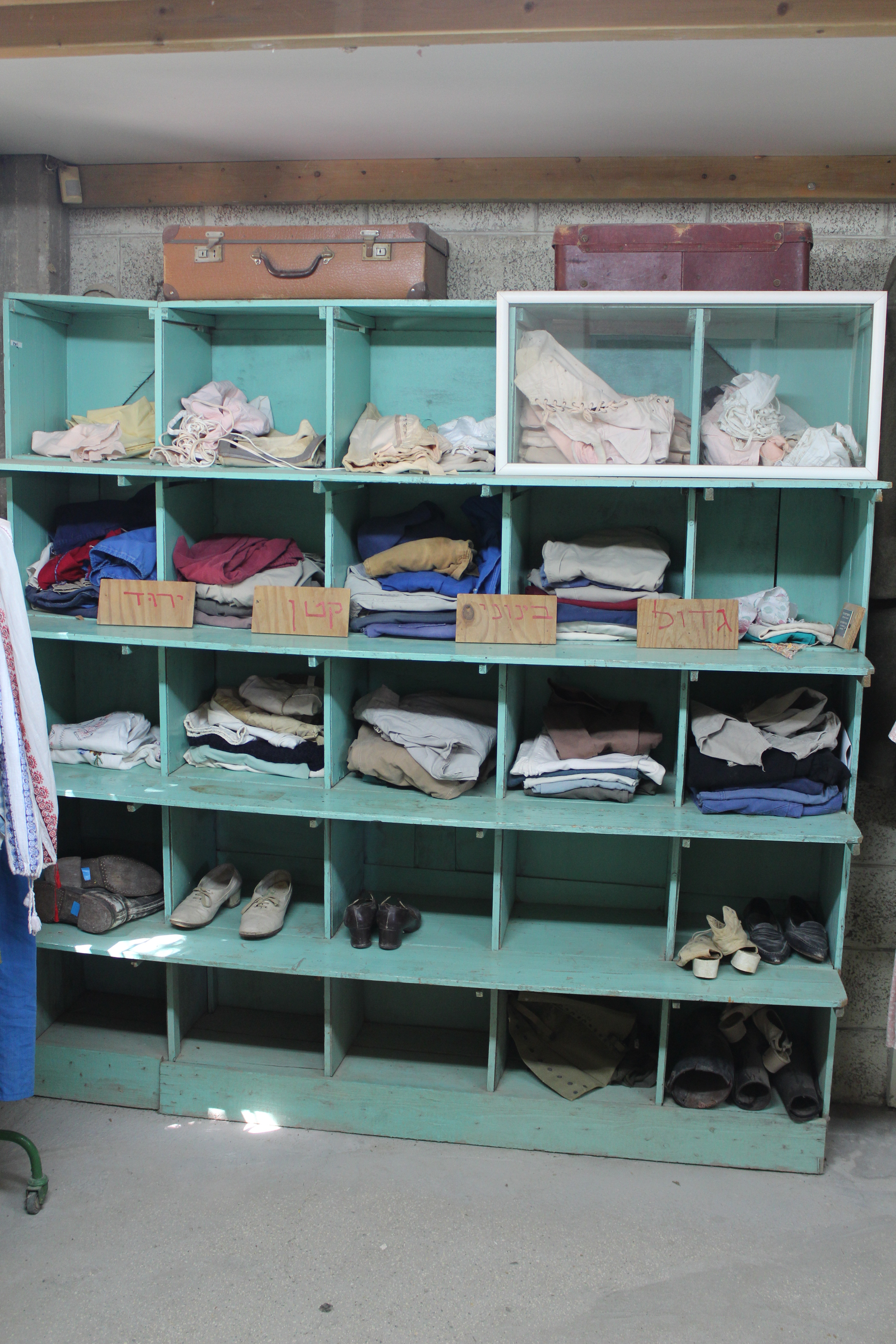 The Museum of Pioneer Settlement, Kibut Yifat The site's ID in Wiki Loves Monuments photographic competition is 6-0134-001